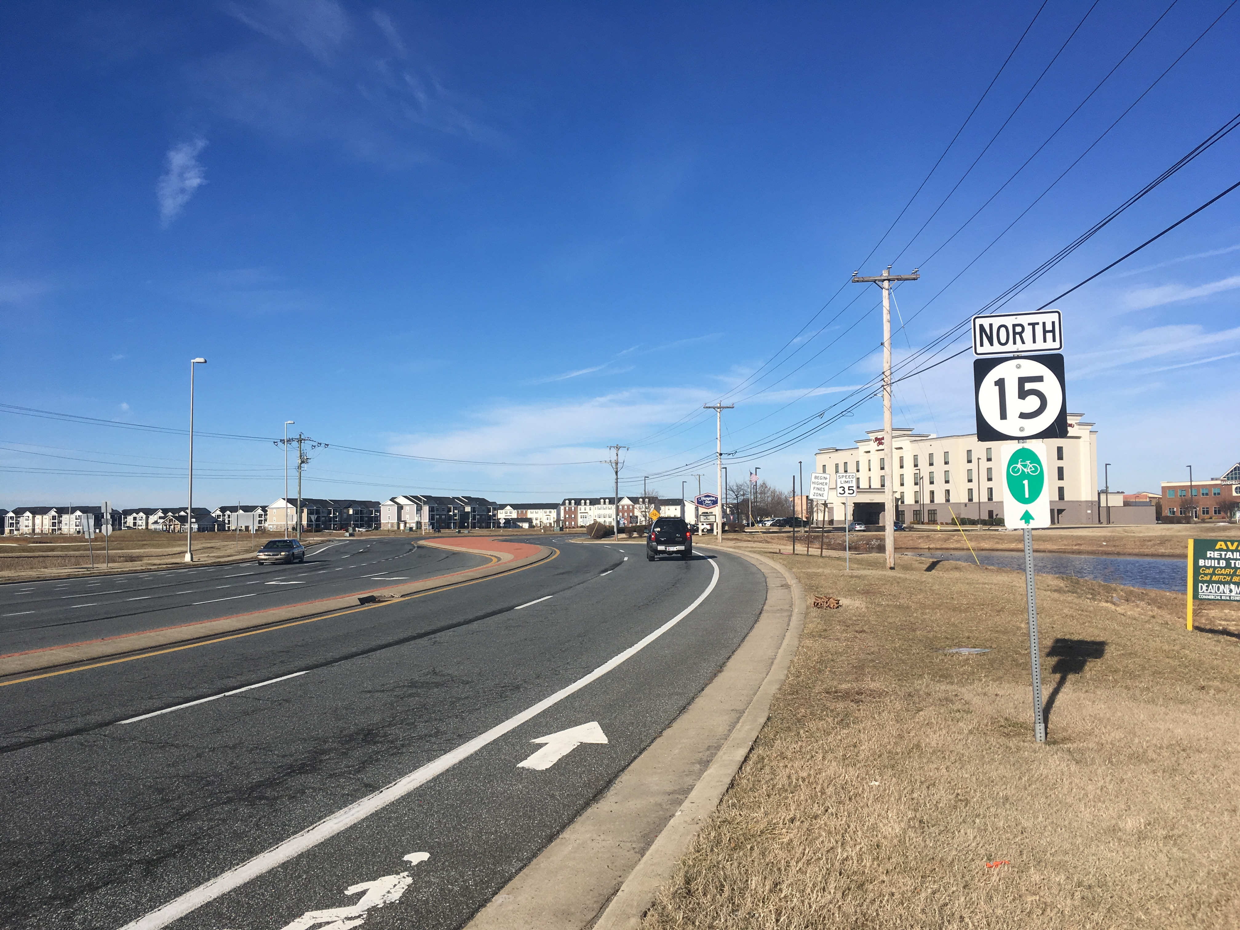 Northbound Delaware Route 15 (Bunker Hill Road) past the intersection with Delaware Route 299 (Middletown Warwick Road/West Main Street) in Middletown, Delaware